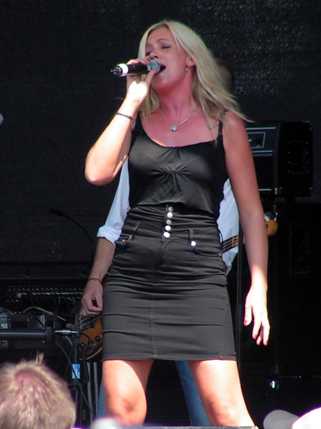 Jessica Andersson